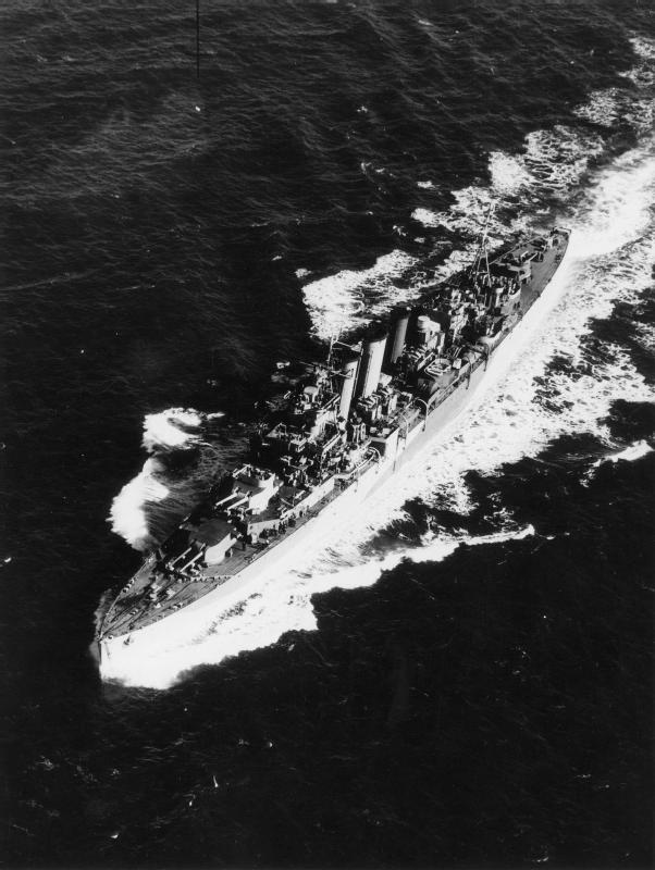 HMS Devonshire At sea. Aerial oblique.